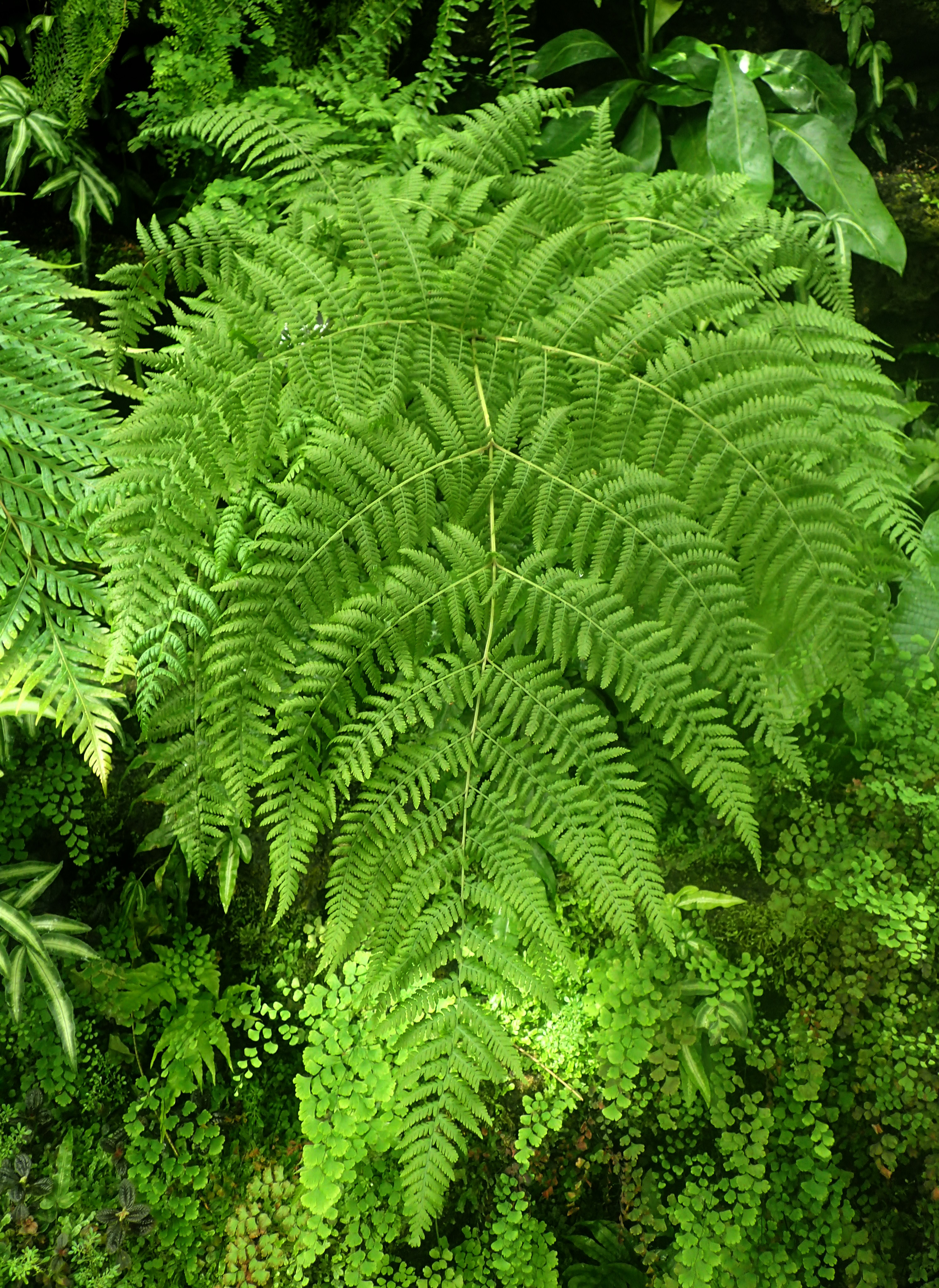 Hypolepis glandulifera at Garfield Park Conservatory